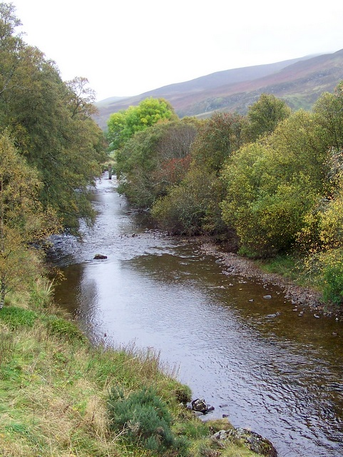 River Isla, Little Forter